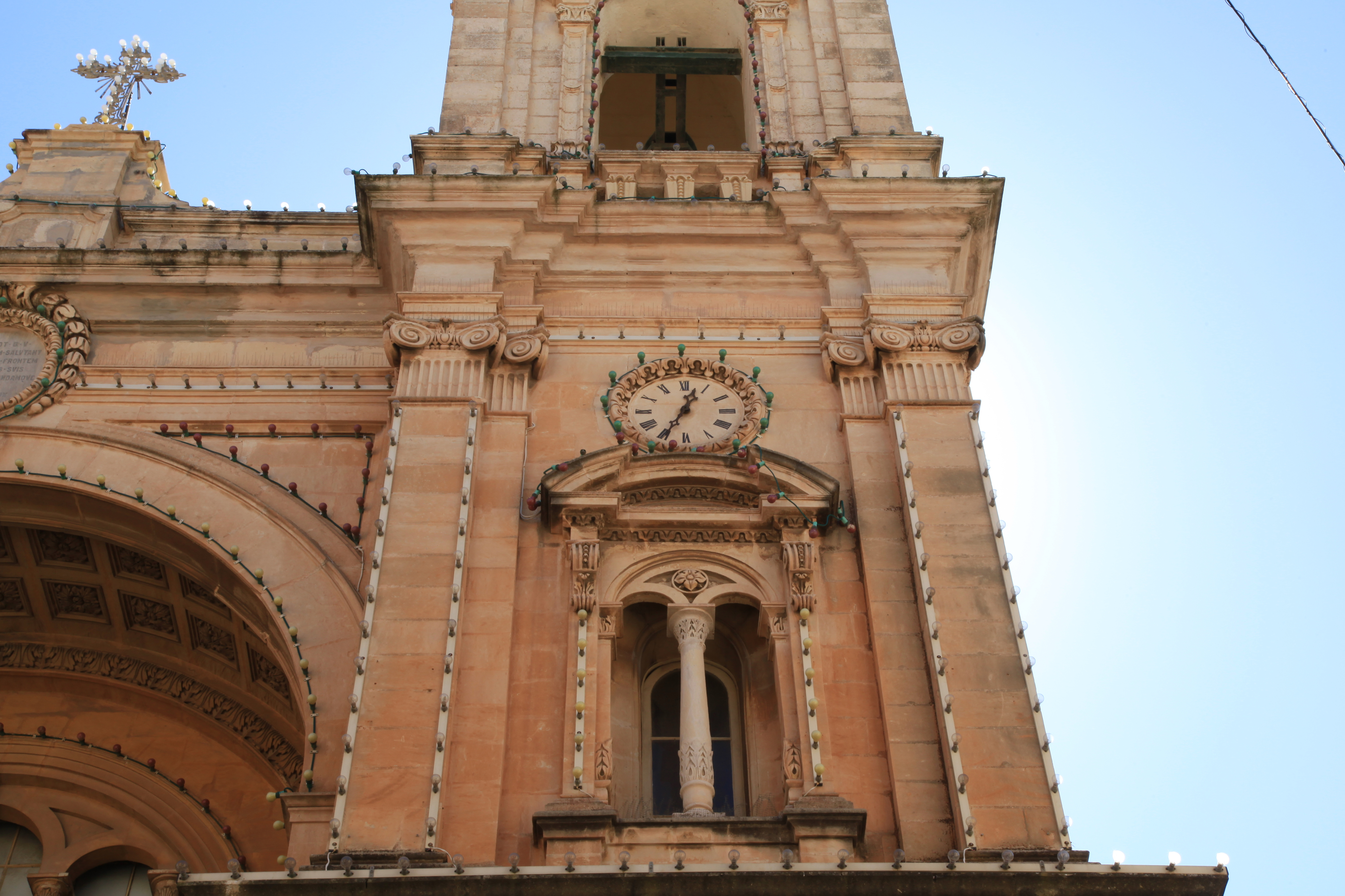 Stella Maris Church, Triq il-Kbira in Sliema, Malta